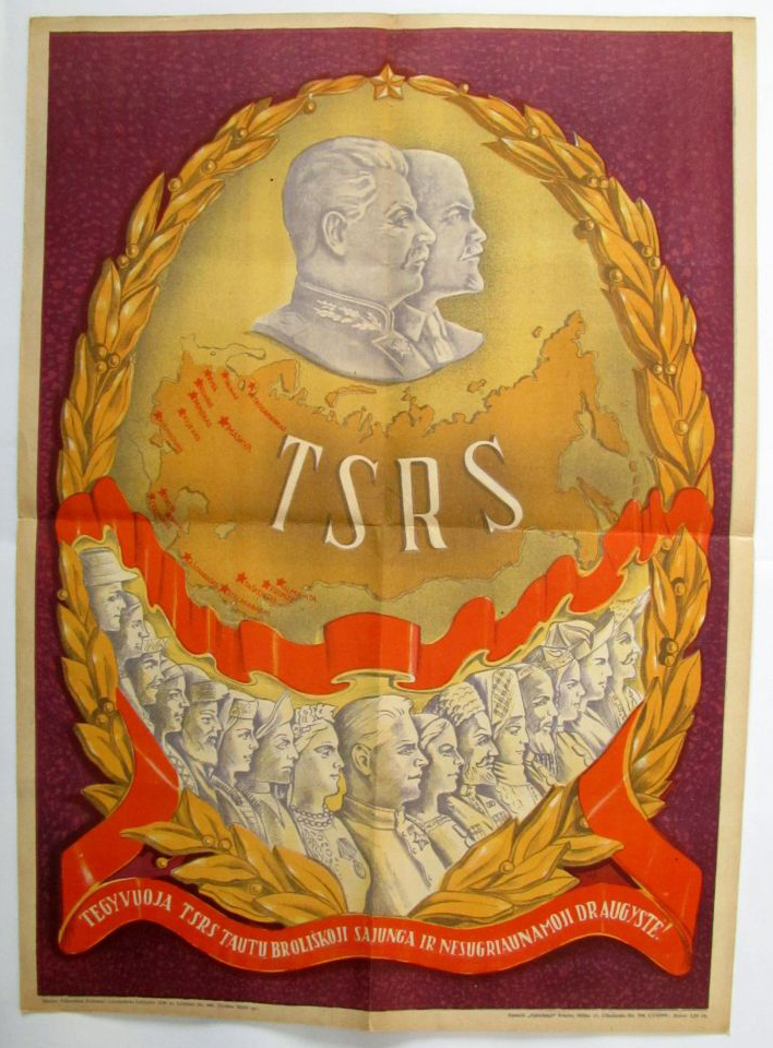 In the great brotherhood of the Soviet peoples with Lenin and Stalin.